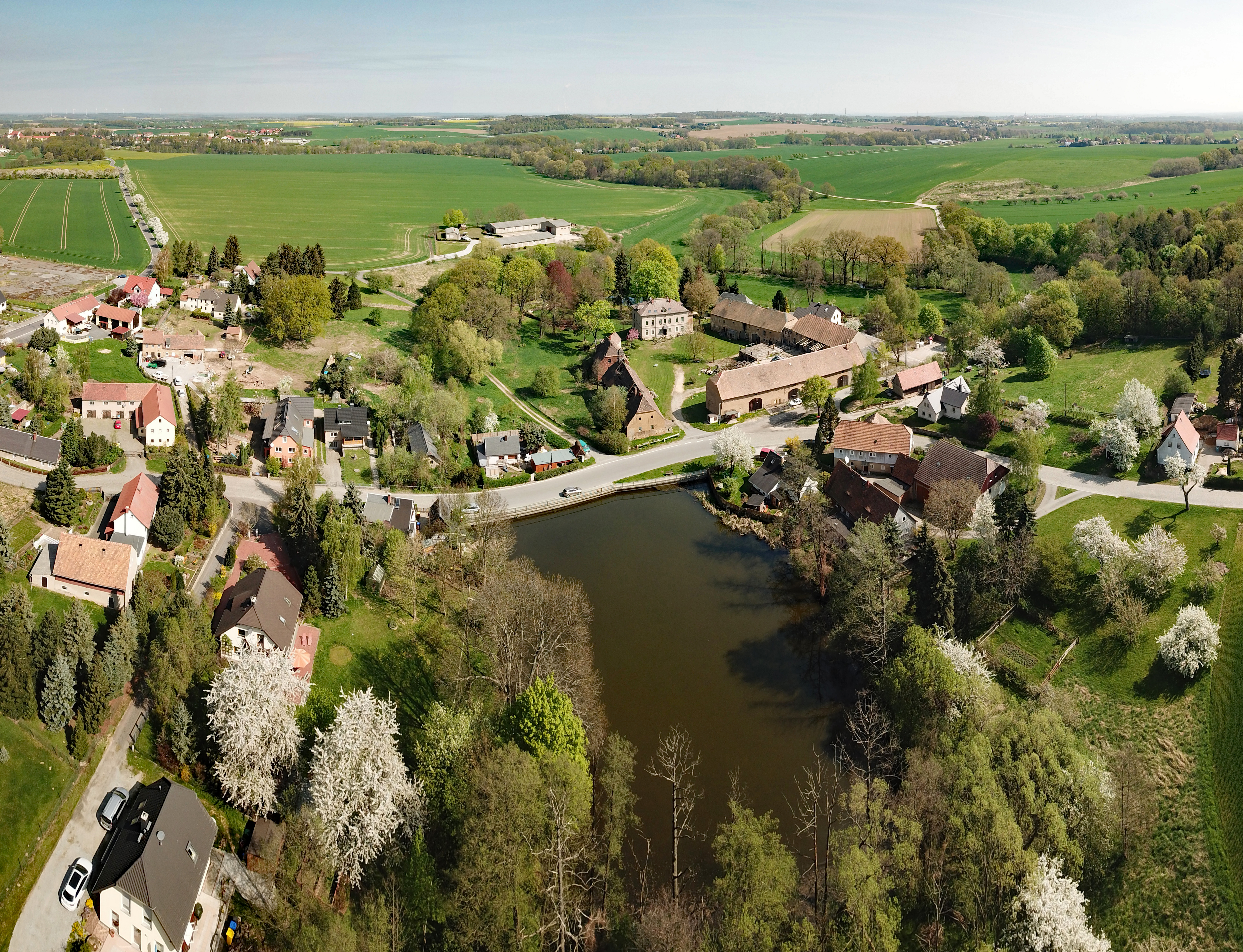 Seitschen (Göda, Saxony, Germany) Hornjoserbsce: Powětrowy wobraz Žičenja.